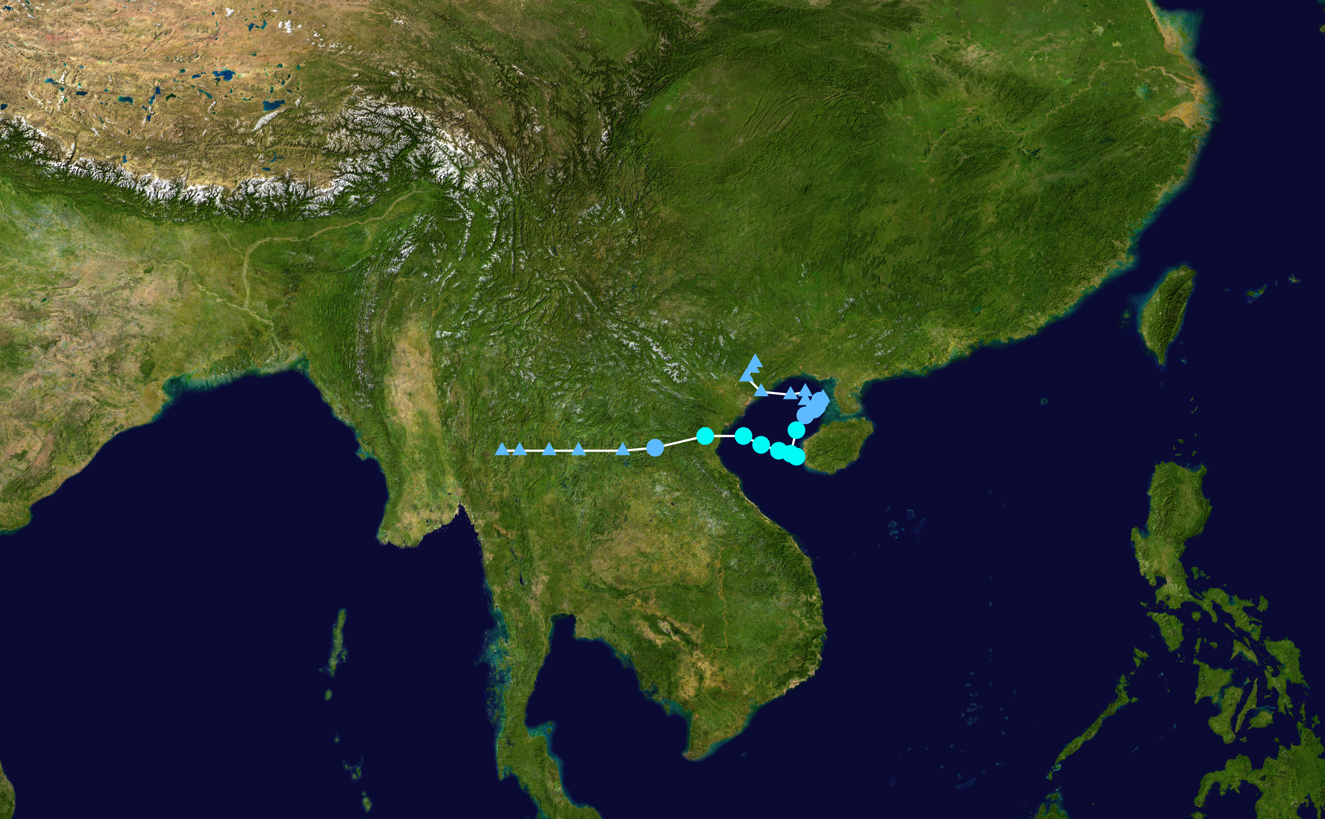 Tropical Storm Amy 1994 track. Uses the color scheme from the Saffir-Simpson Hurricane Scale.